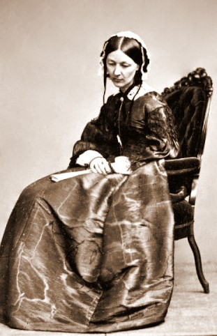 Carte de visite photograph of Florence Nightingale, by Kilburn, circa 1854.